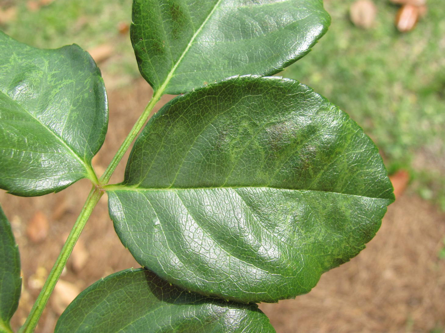 Faint mosaic pattern caused by Prunus Necrotic Ringspot Virus (PNRSV), on "Graham Thomas" ('Ausmas'). We maintain this infected plant at FSC to show the symptoms for teaching purposes. It is the only infected plant in our gardens.